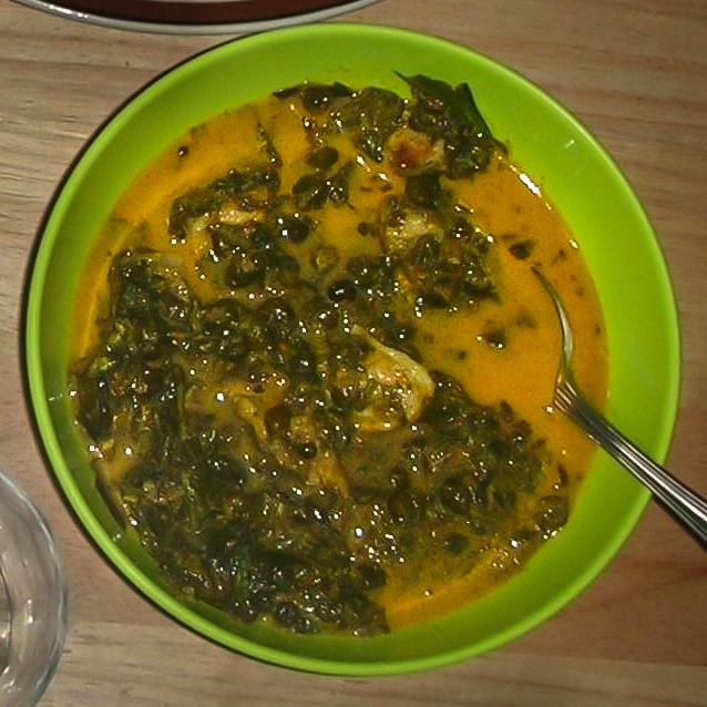 Kaeng khi lek curry, made with the slightly bitter Kassok leaves and seeds